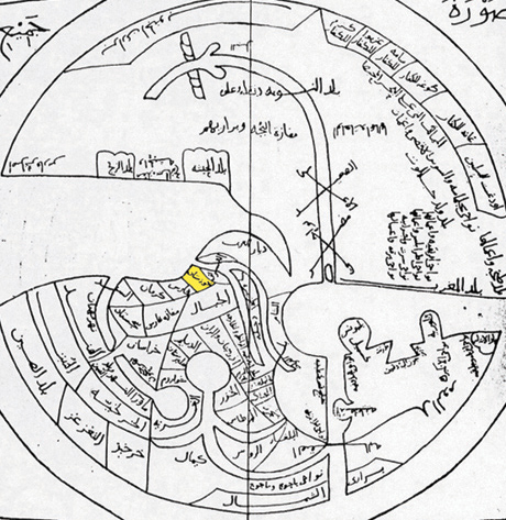 Ibn Hawqal Map of the World. 10th century. From Iran's National Museum Library.